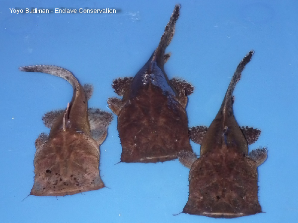 Juveniles of Chaca bankanensis collected in Borneo